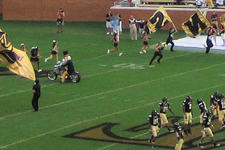 This a picture I took before the Wake Forest-Vanderbilt game on September 1, 2005 at Groves Stadium